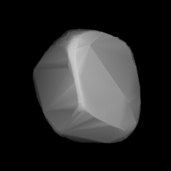 3D convex shape model of 1391 Carelia, computed using light curve inversion techniques. J. Hanuš, J. Ďurech, M. Brož, B. D. Warner (June 2011). "A study of asteroid pole-latitude distribution based on an extended set of shape models derived by the lightcurve inversion method". Astronomy and Astrophysics 530: A134. ISSN 0004-6361. arXiv